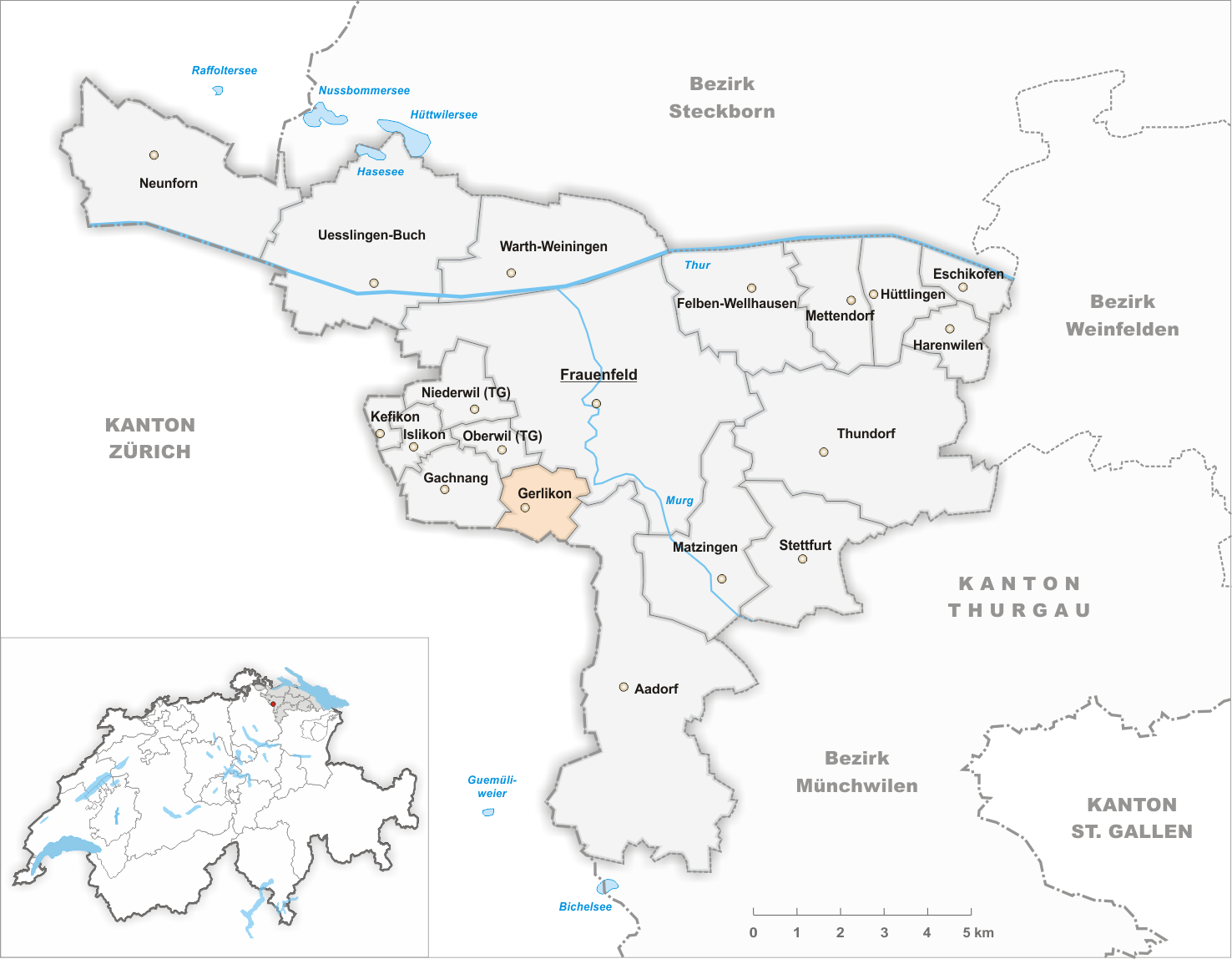 Municipality Gerlikon